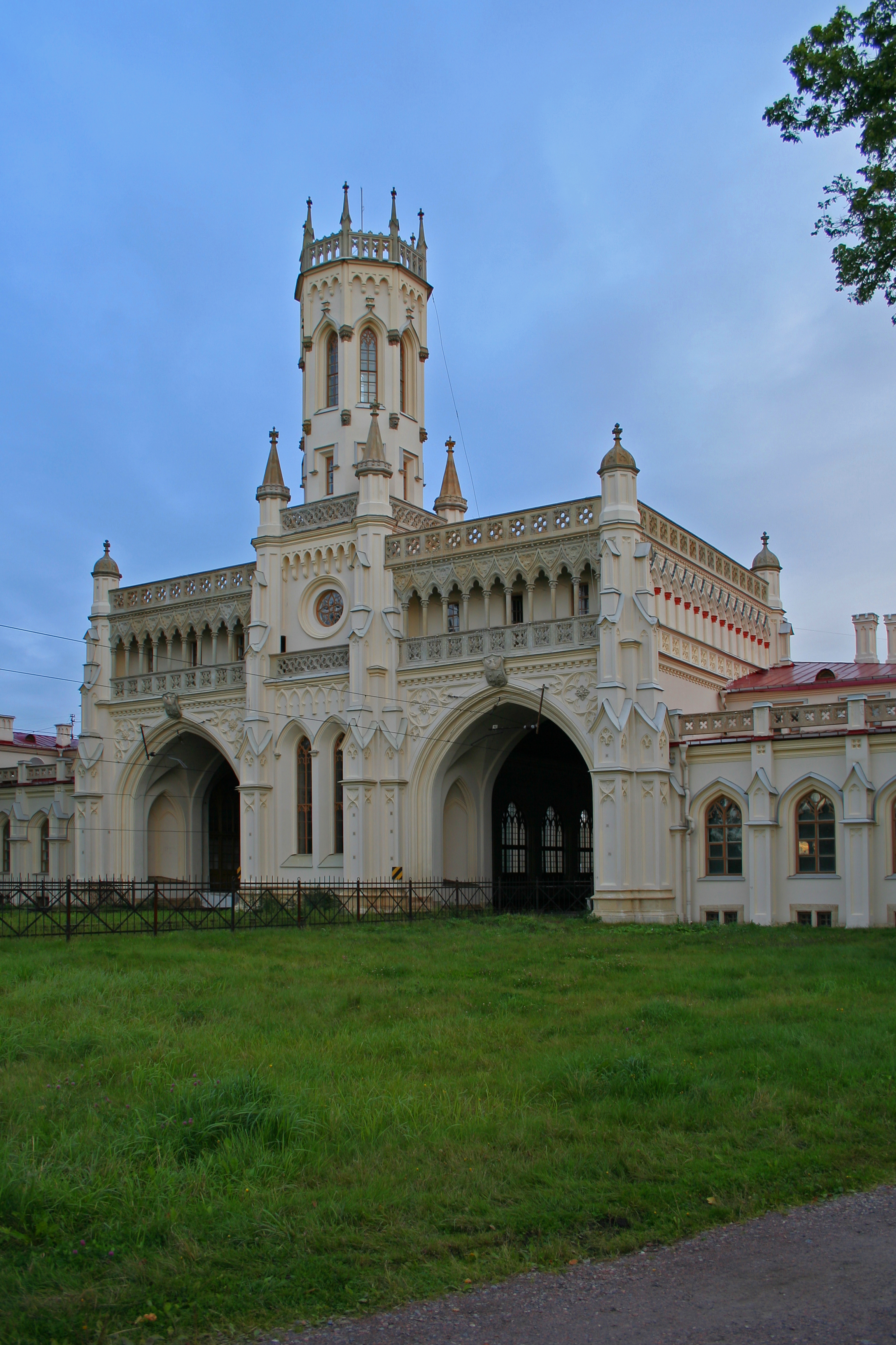 Saint Petersburg, New Peterhof train station